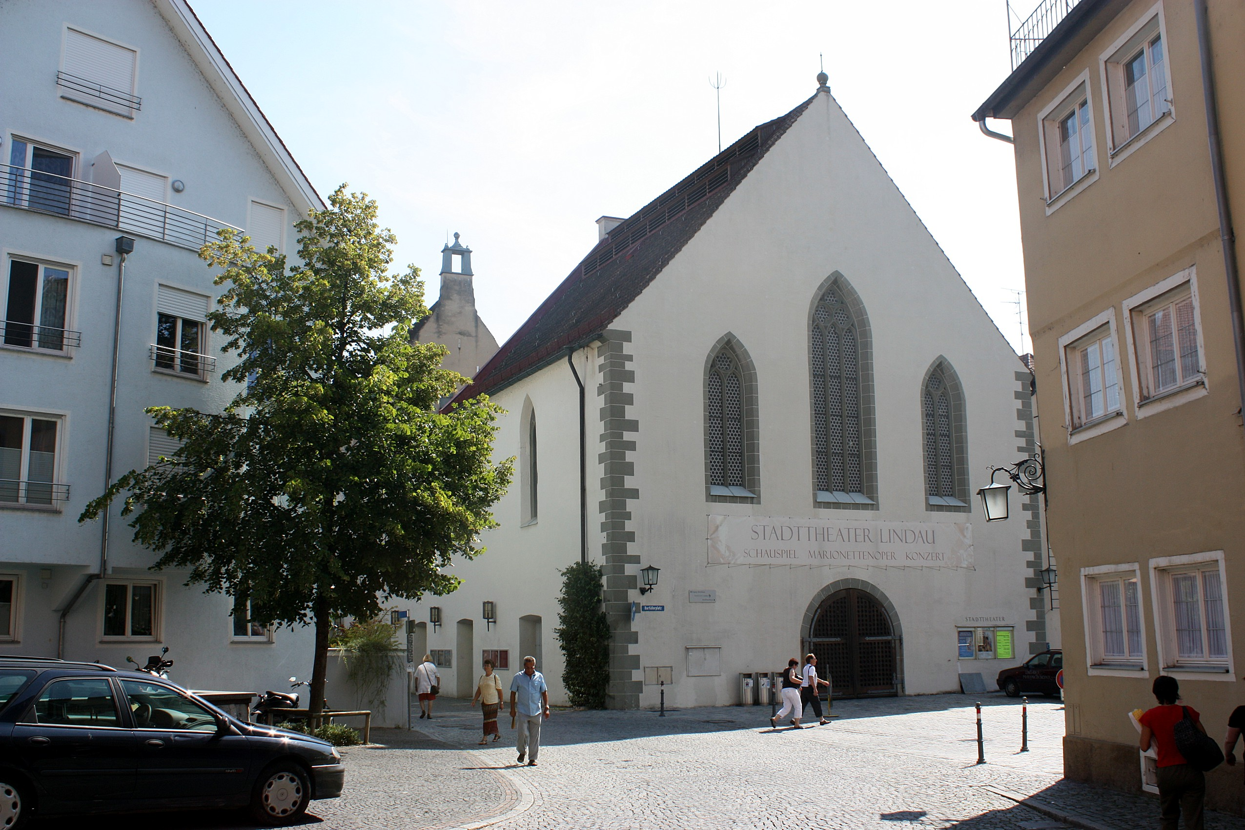 Lindau, the theatre